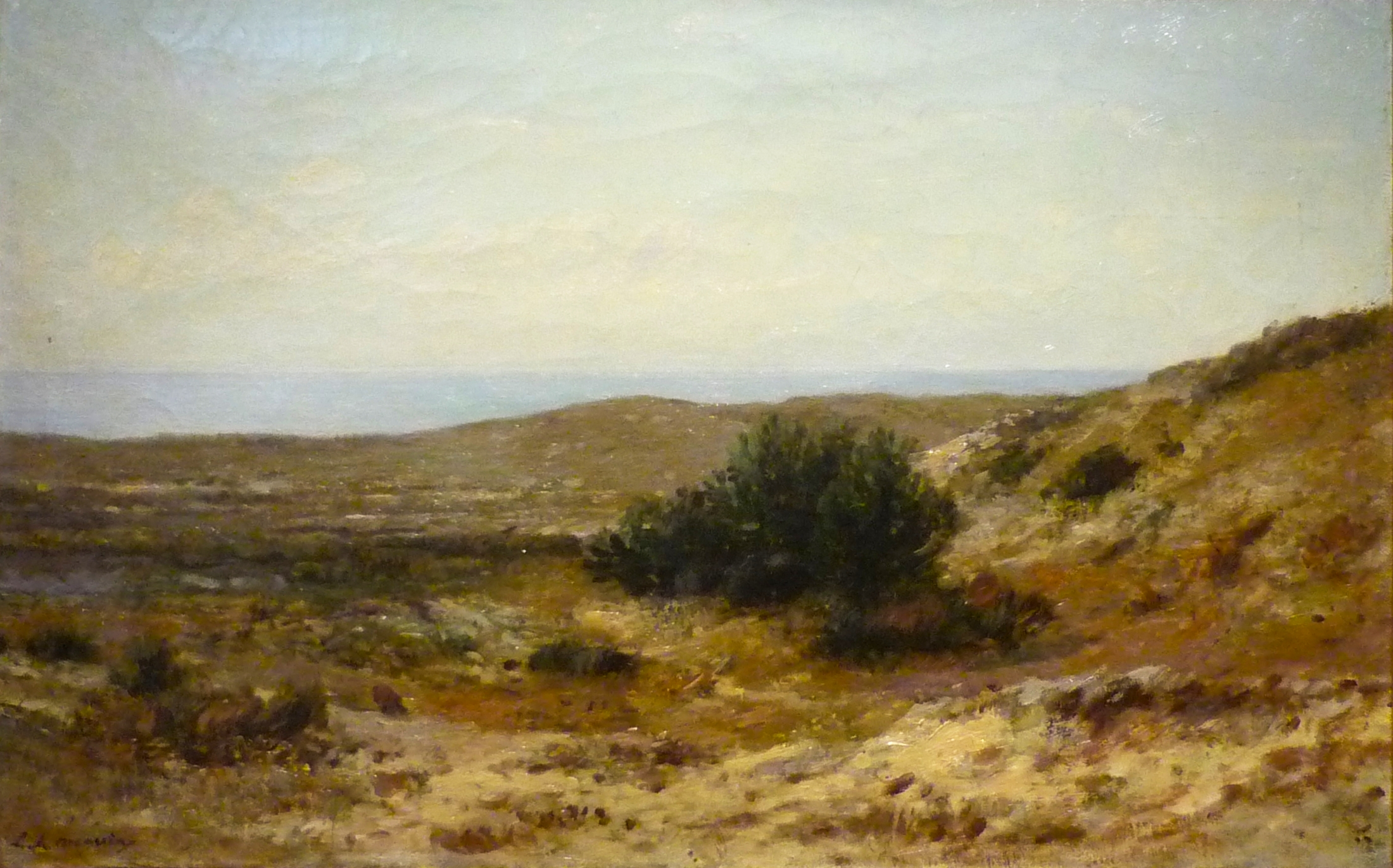 Montalivet (Gironde)